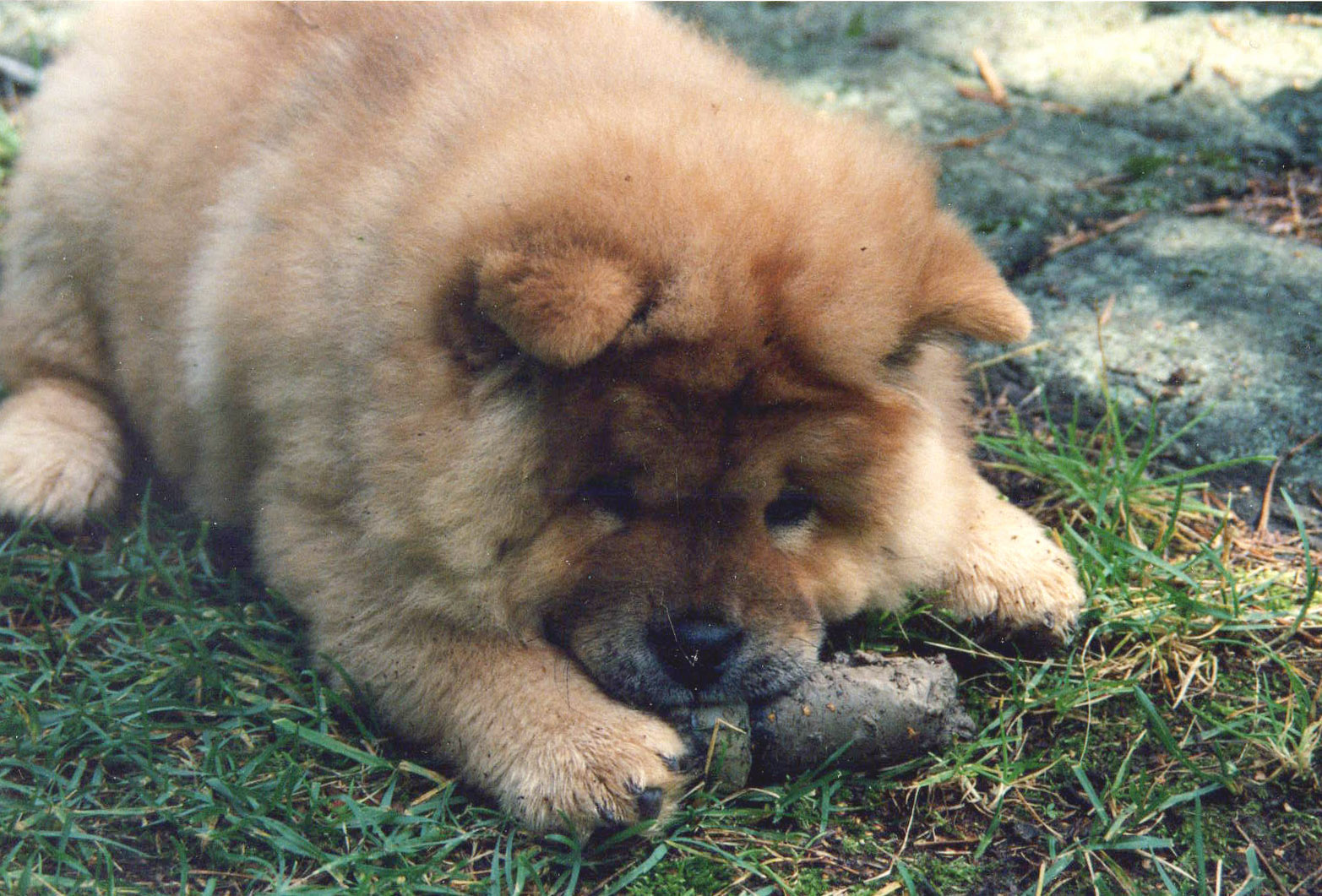 A chow chow puppy, self-taken (and scanned). The quality might not be the best.